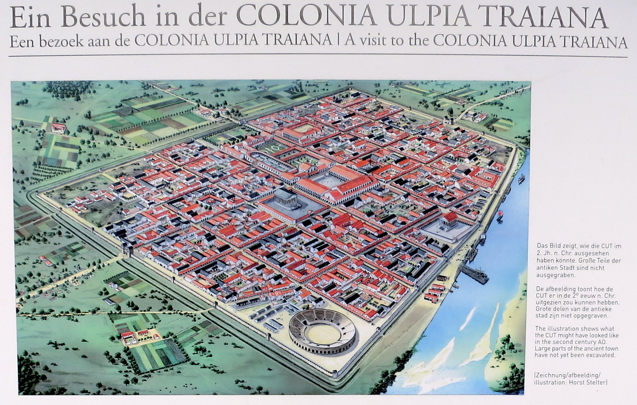 The Roman settlement Colonia Ulpia Traiana - reconstruction